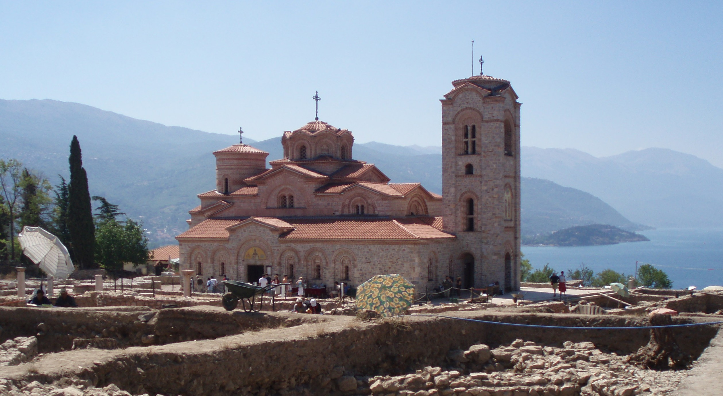 Church Saint Clement and Pantheleimon in Ohrid, Republic of Macedonia